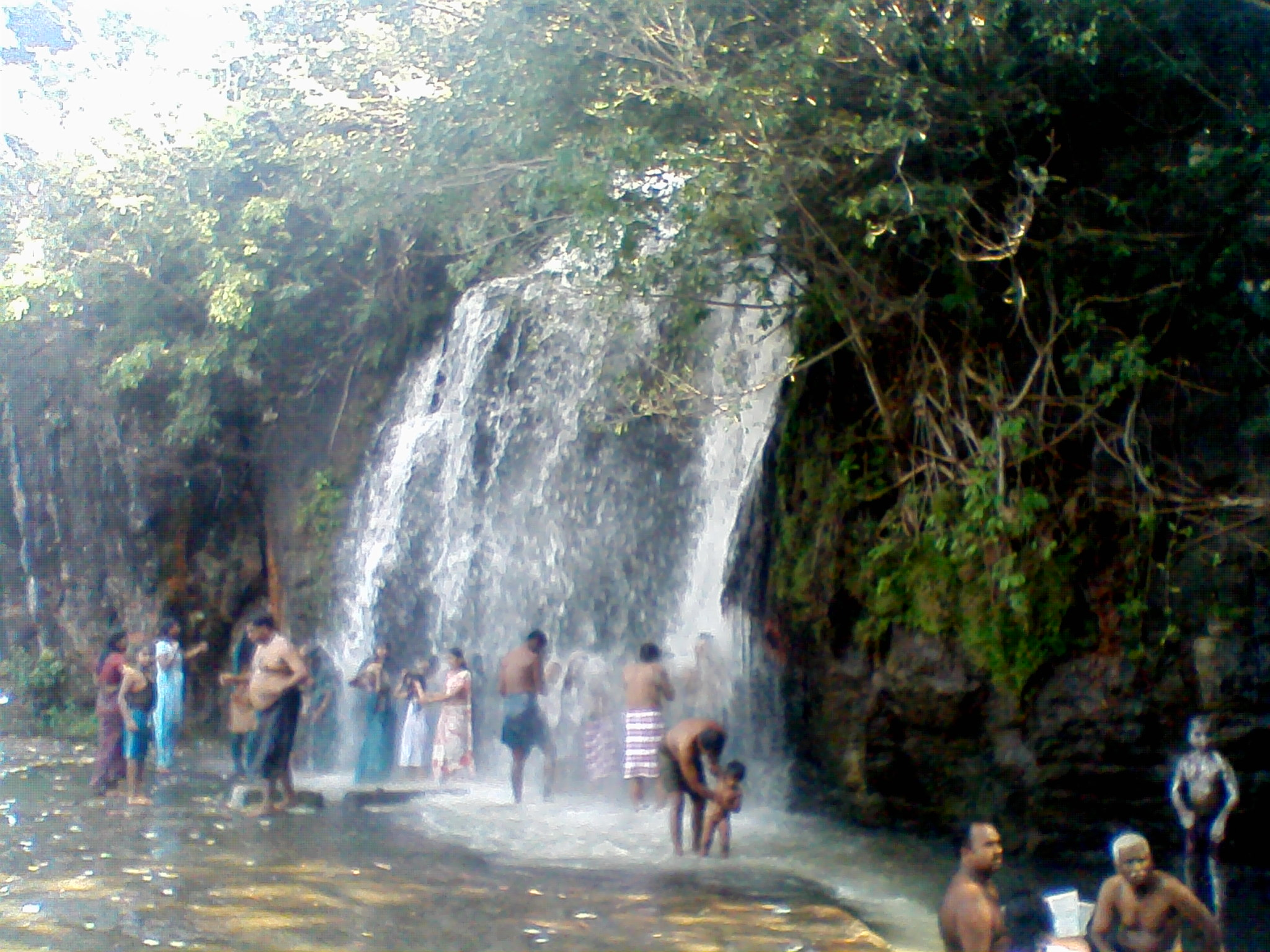 photo of agastiyar falls